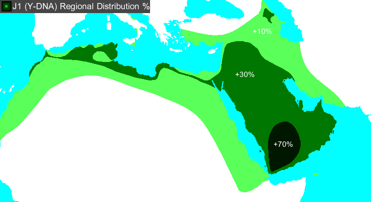 J1 Distribution